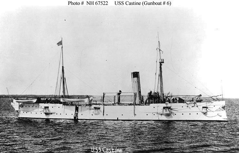 USS Castine (PG-6) photographed in a harbor. Courtesy of Donald M. McPherson, 1969. U.S. Navy photo NH 67522.